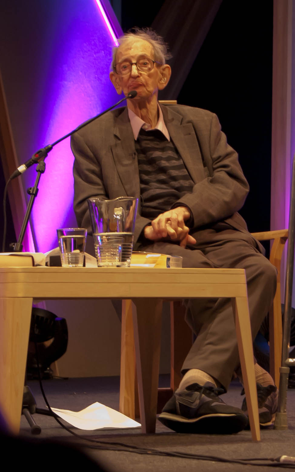 Eric Hobsbawm at Hay-on-Wye 2011